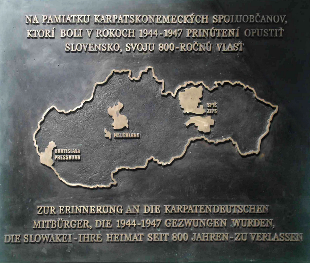 Plate in memory of the expelled Carpathian Germans on the Museum of Carpathian German Culture in Bratislava.